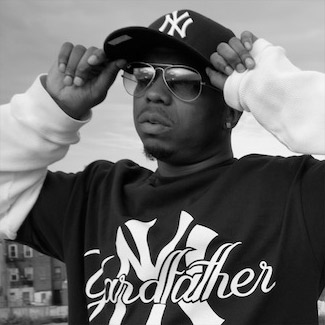 Saigon